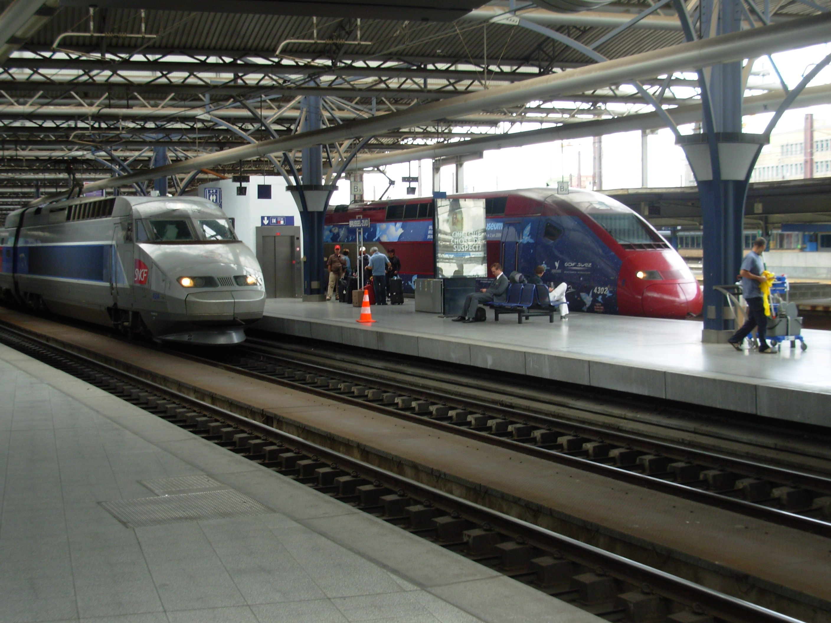 A Thalys train bound for Paris-Nord shares the platform with a TGV train bound for Nice via the CDG Airport and Lyon at Brussels South station.